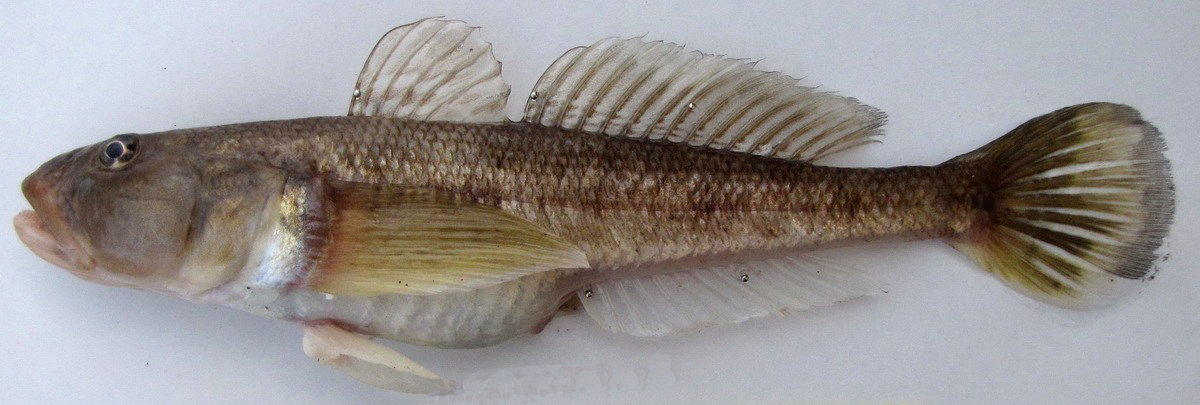 Deepwater goby (Ponticola bathybius) from the Caspian Sea near Bandar-e Anzali, Iran